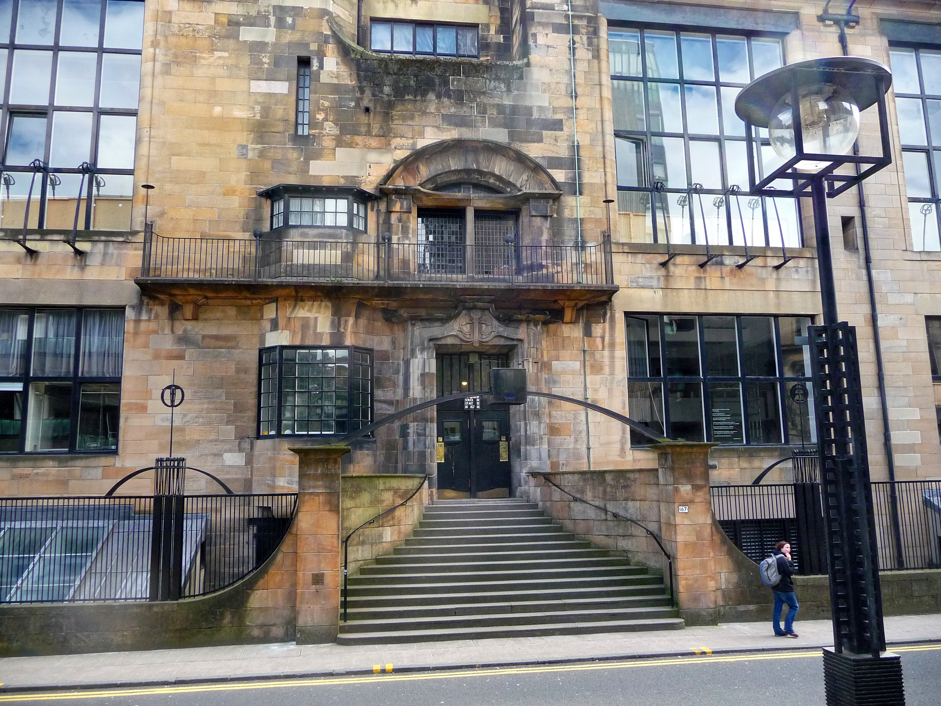 Glasgow School of Art, the Mackintosh Building, built 1897–1909 by Charles Rennie Mackintosh (1868–1928).